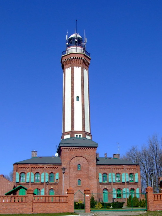 Lighthouse, Niechorze, Poland